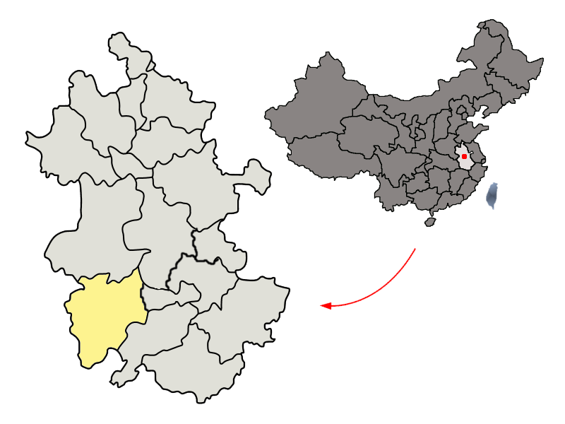 Location of Anqing Prefecture (yellow) within Anhui Province of China Map drawn in december 2007 using various sources, mainly : Anhui Province administrative regions GIS data: 1:1M, County level, 1990 Anhui Counties map from